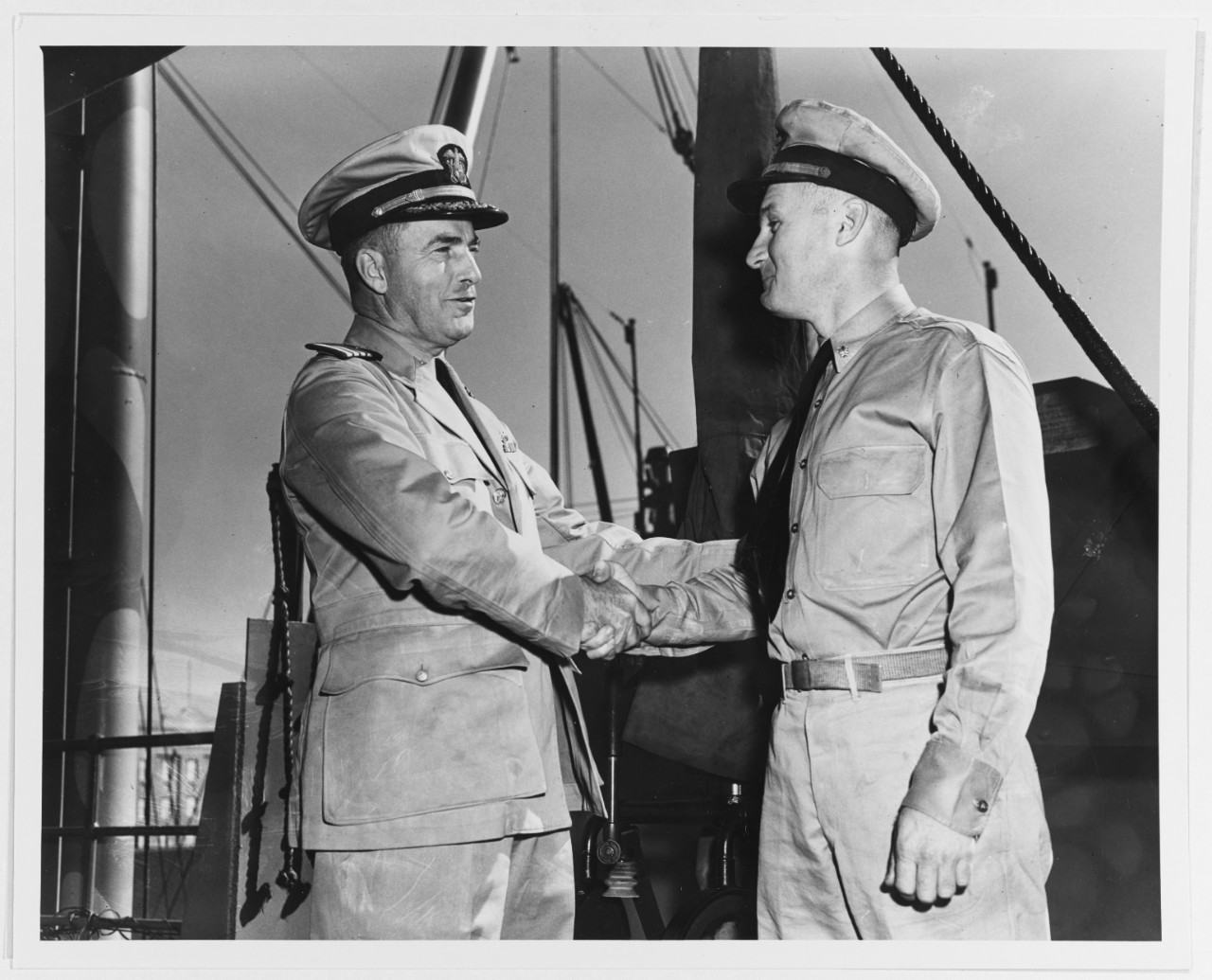 Captain Ralph W. Christie, USN, Commander Task Force 42 and Submarine Squadron Five (left) congratulates Lieutenant Commander John R. Moore, USN, Commanding Officer of USS S-44 (SS-155), as he returned to this South Pacific base after a very successful week of patrol activity. (quoted from original World War II photo caption) The original caption date is 1 September 1942, which is presumably a release date. S-44 returned to Brisbane, Australia, on 23 August 1942 at the end of a war patrol in the Solomon Islands, during which she sank the Japanese heavy cruiser Kako. The photograph was probably taken at about that time. Official U.S. Navy Photograph, now in the collections of the National Archives.